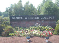 Entrance of Daniel Webster College. Taken by user:karmafist